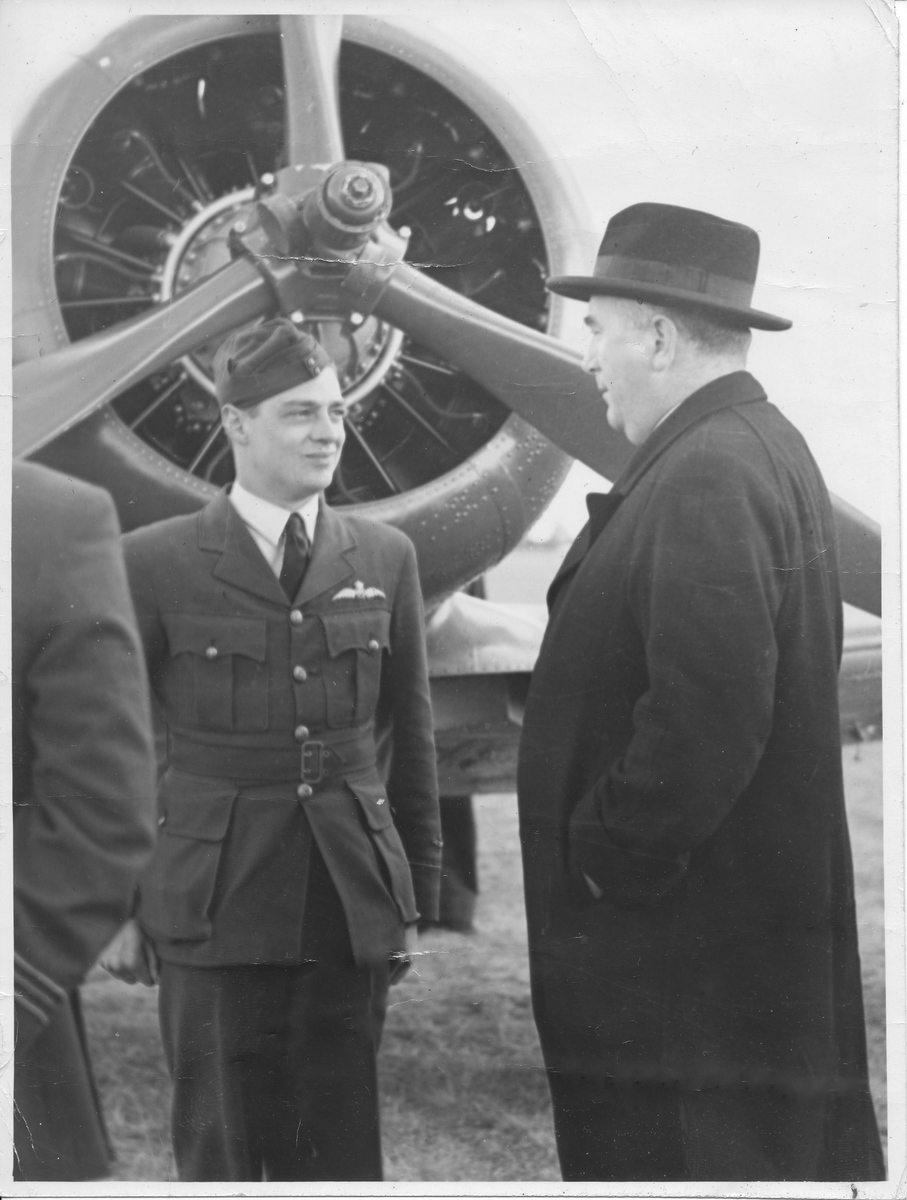 Photograph of Squadrom Leader BMH Palmer (RAAF) with the Prime Minister of Australia Robert Menzies in August 1940 at Archerfield Airfield, Brisbane Formation ex Amberley